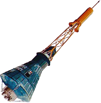 Artists concept of Mercury capsule with launch escape system. Image ID: S62-04976